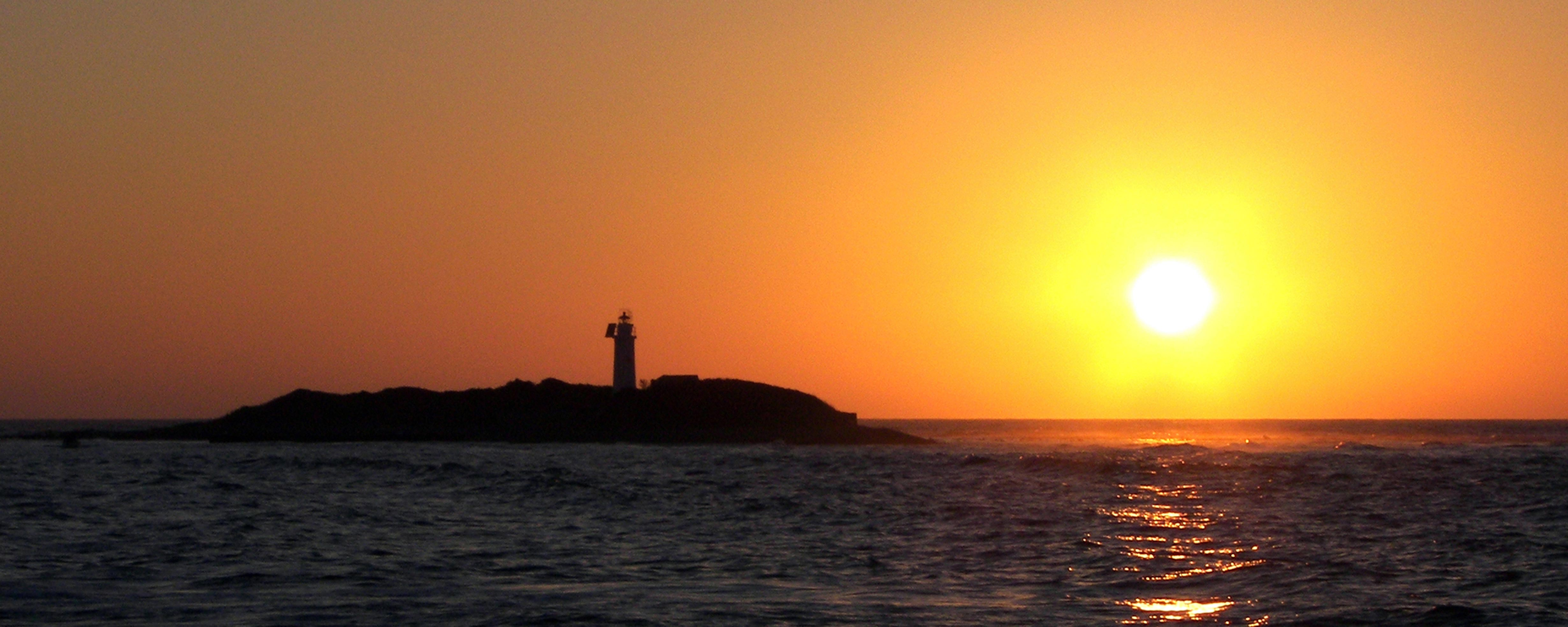 The little island in front of Licosa, at the sunset